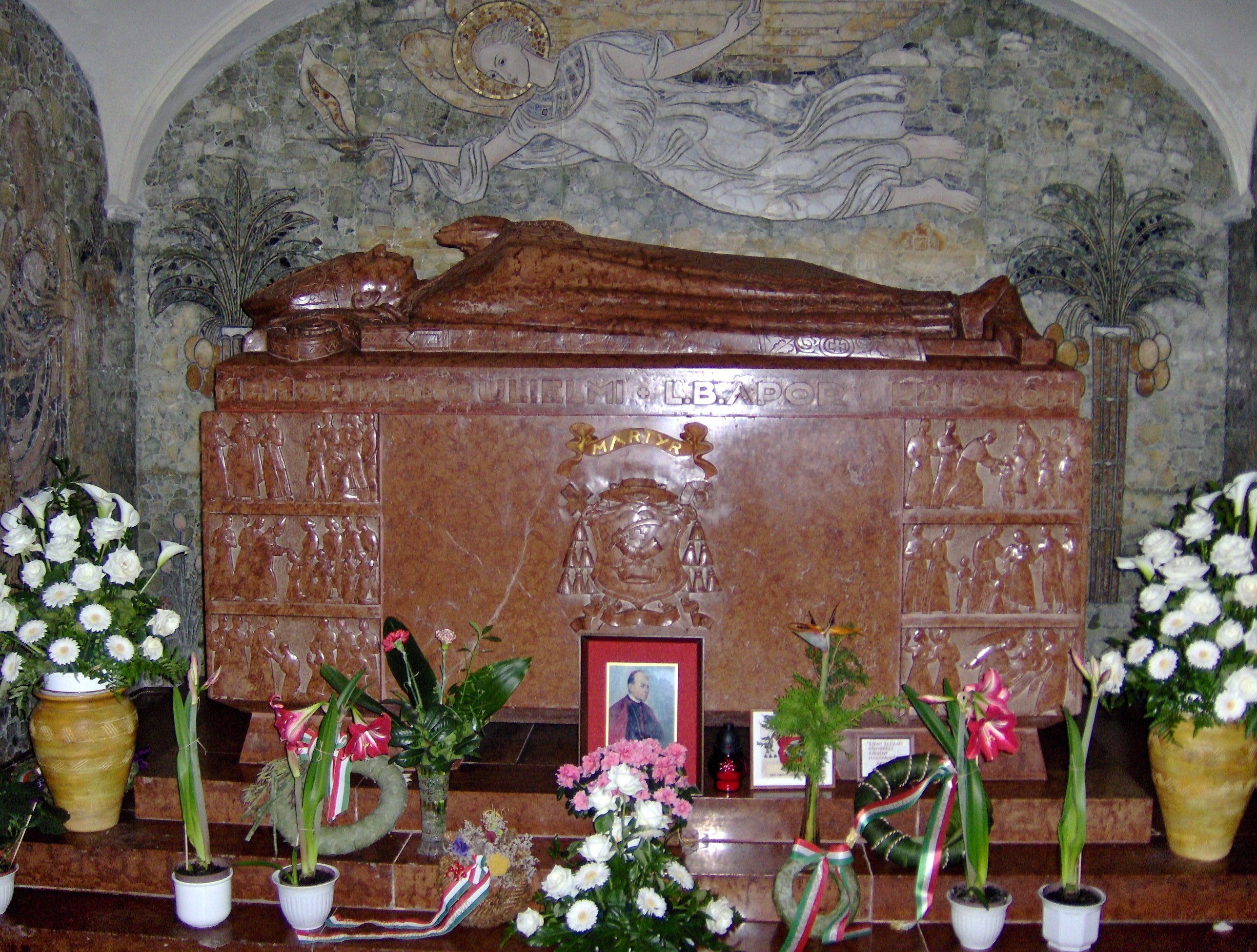 Tomb of Vilmos Apor, Basilica Minor in Győr